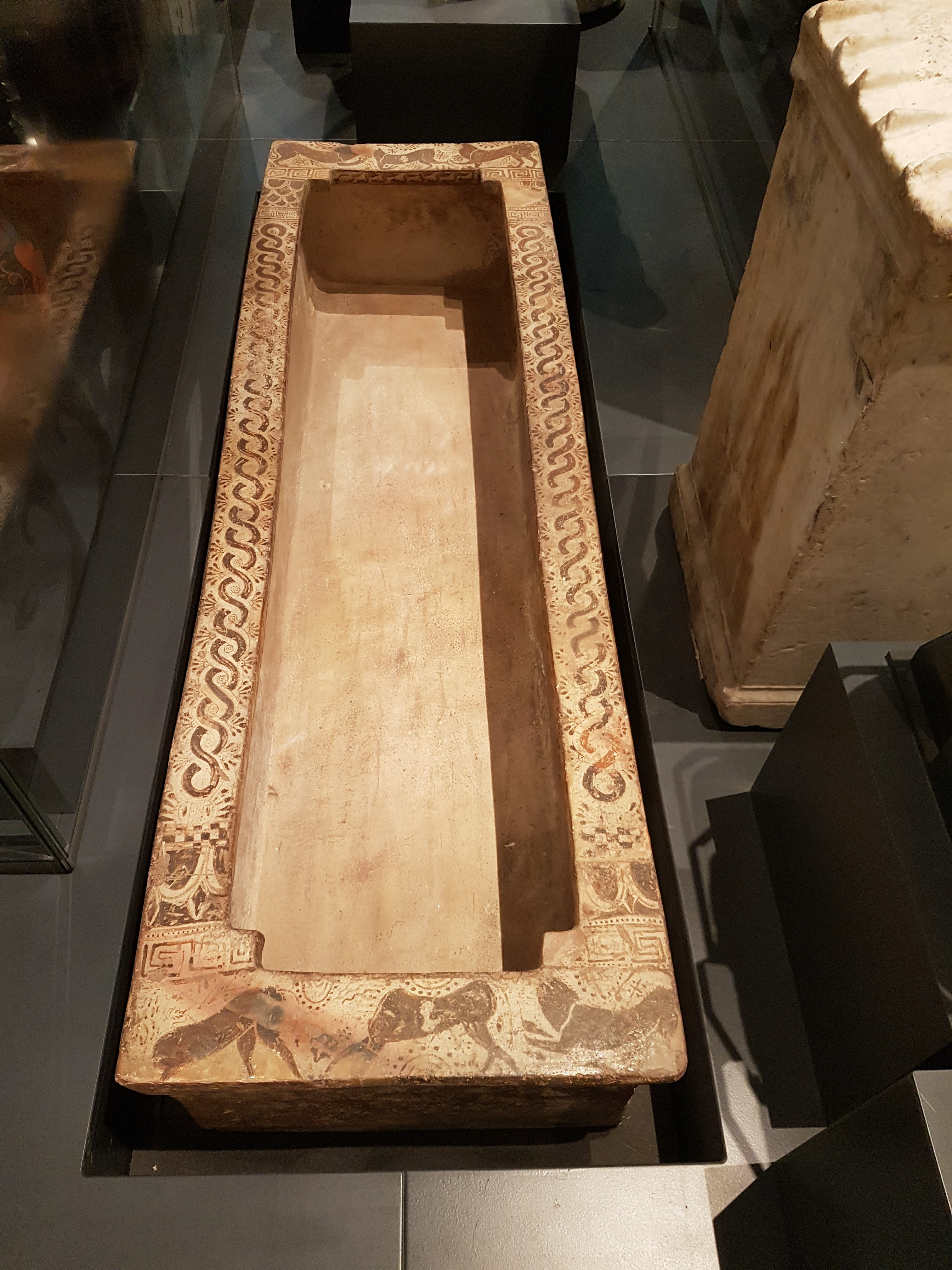 Clazomenian sarcophagus found in Smyrna, dated 700-601 BC. Displayed at the Ashmolean Museum, Oxford.